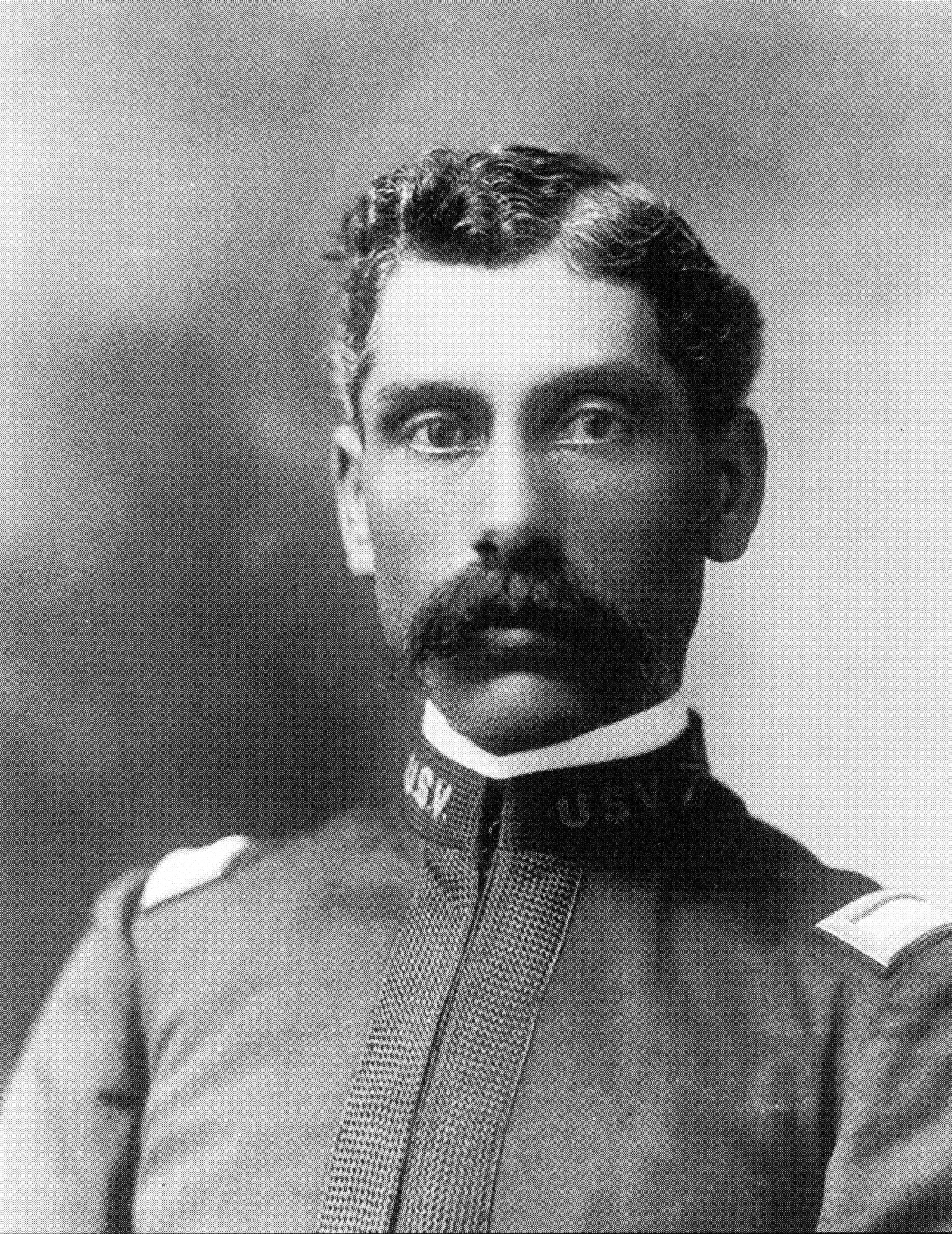 Lieutenant William McBryar, United States Army, in the uniform of the U.S. Volunteers. Recipient of the Medal of Honor for his actions in the Indian Wars of the western United States.